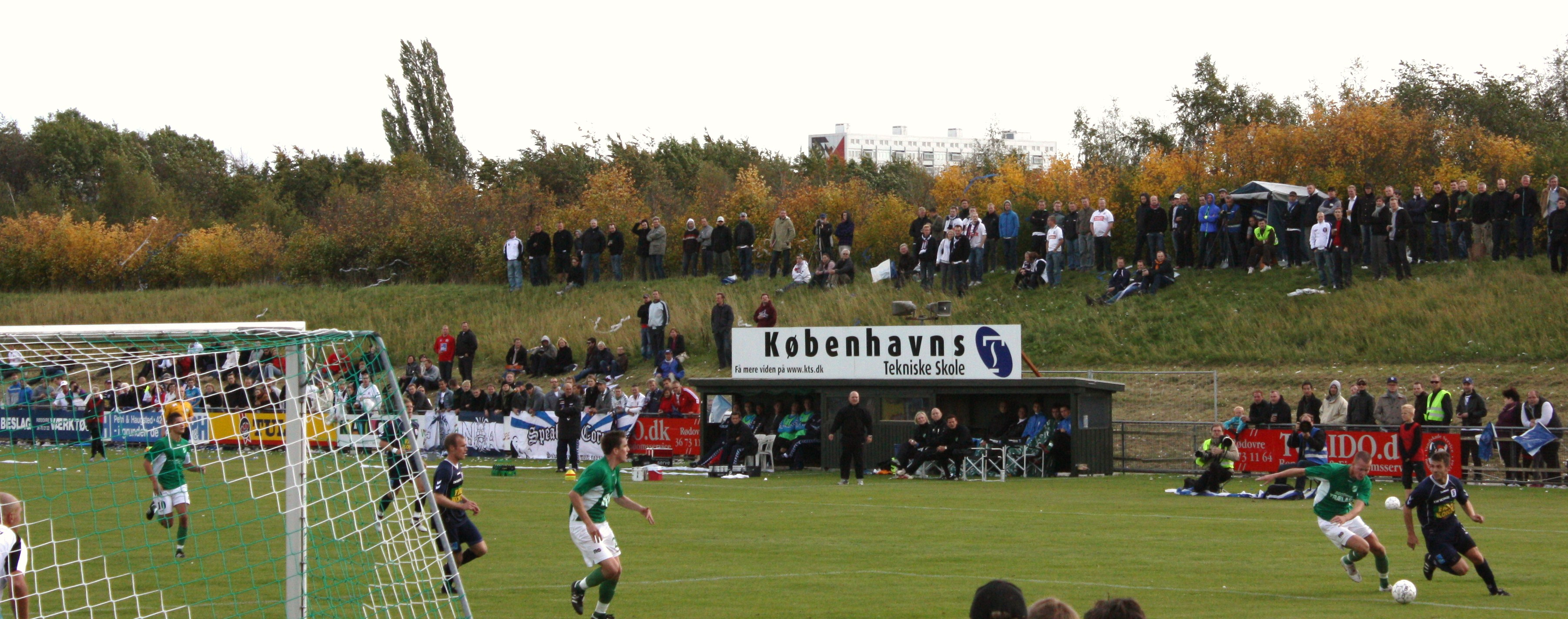 Danish Cup game Avarta-AGF at Espelundens Idrætsanlæg September 2008